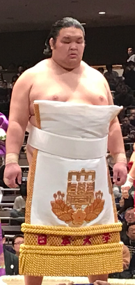 Taken at a 2018 tournament